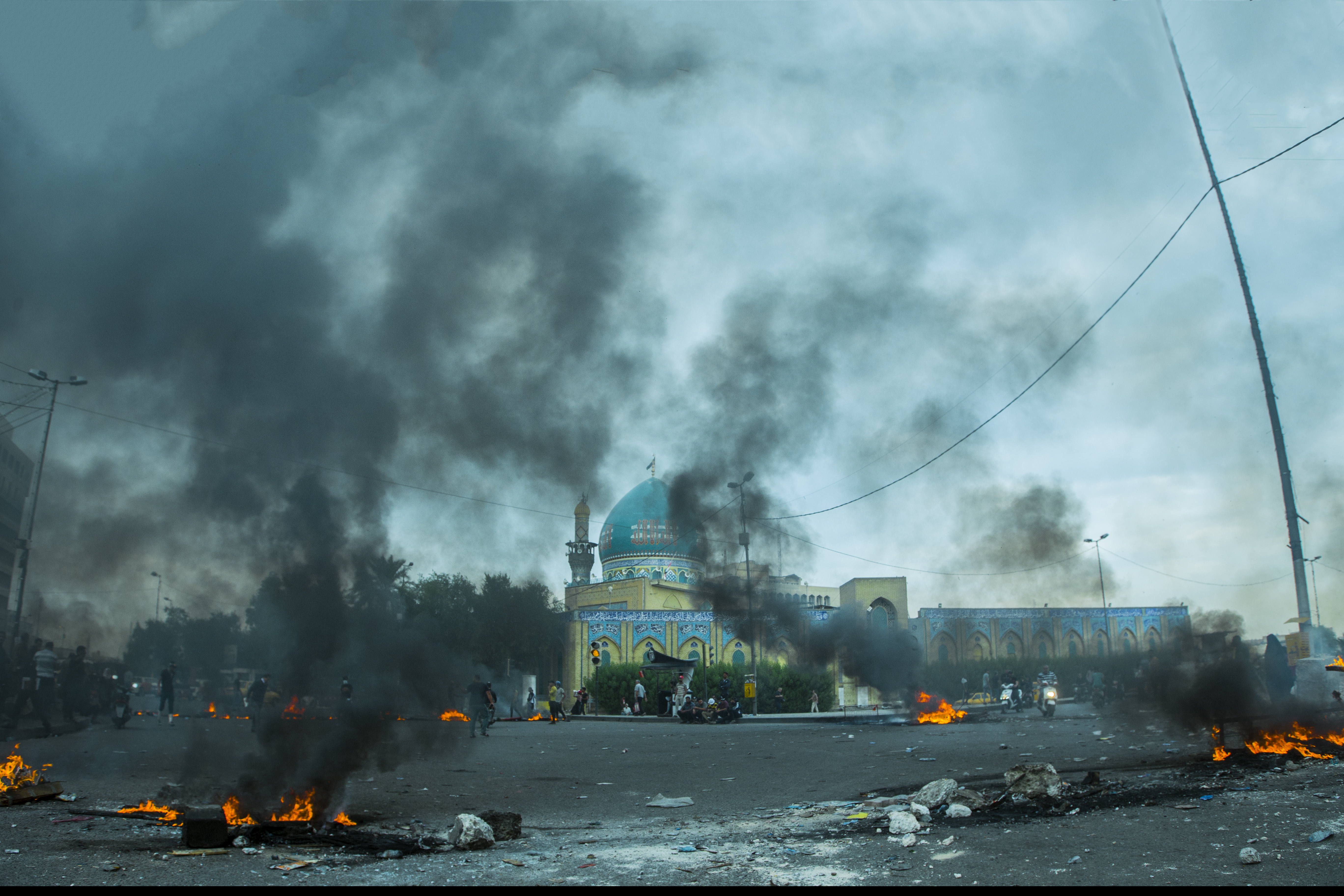 Al-Khulani Square is completely closed during a civil disobedience during the October Revolution